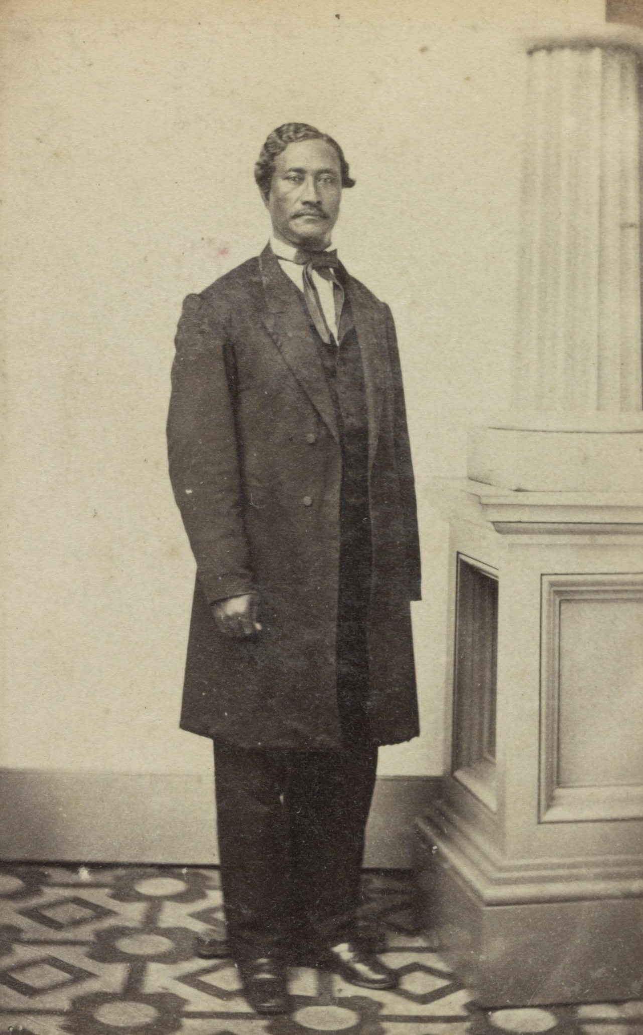 Caesar Kaluaiku Kapaʻakea (1815 – November 13, 1866) was a Hawaiian chief who was the patriarch of the House of Kalākaua that ruled the Kingdom of Hawaii during the last of its days.